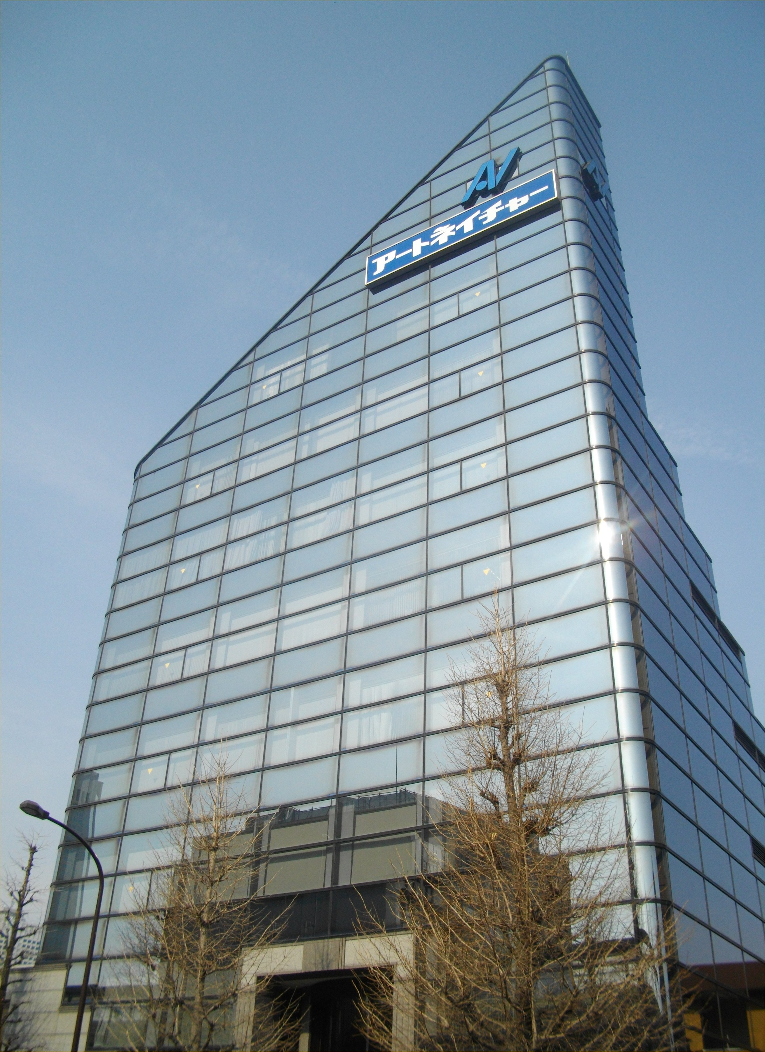 A photo of head office of Artnature Inc.(a company which is manufacturing and selling wigs and hairpieces in Japan.)YoYogi,Shibuya-ku,Tokyo,Japan.